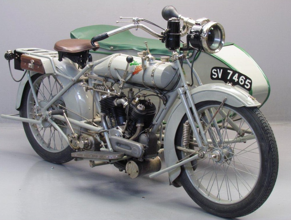 BAT 1000 cc motorcycle from 1920